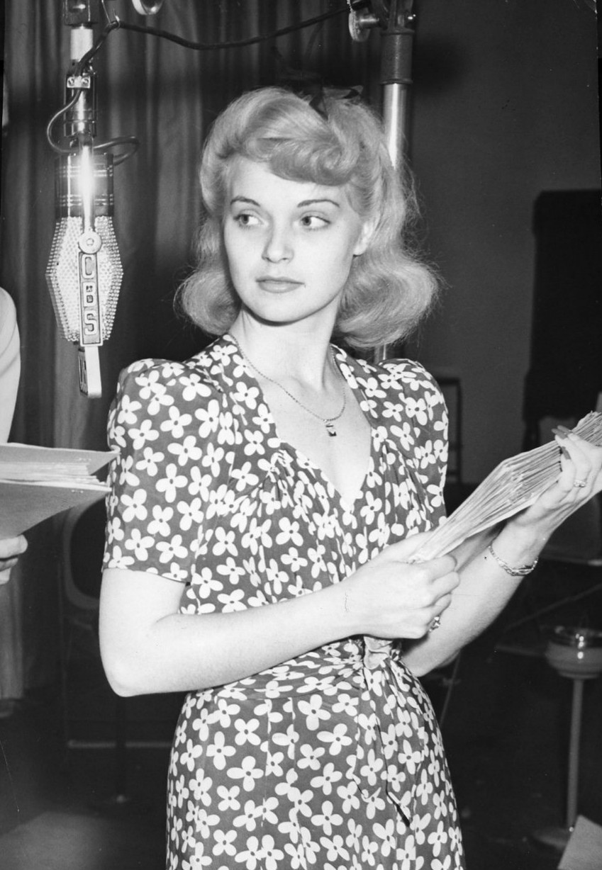 Photo of actress Nan Grey as she was on the air with the radio program Those We Love.